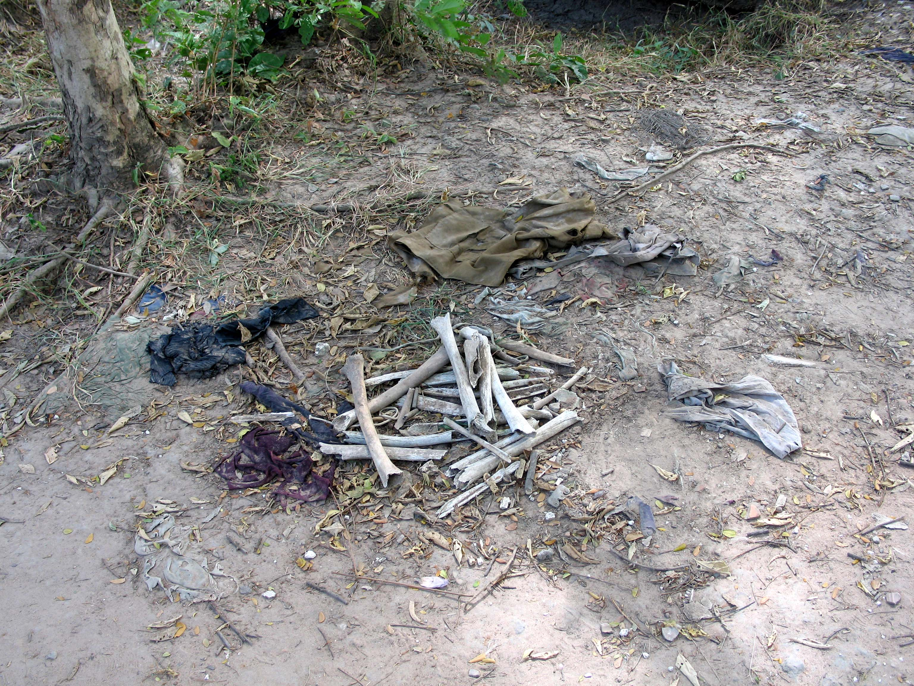 Photographed and uploaded to English Wikipedia by Michael Darter